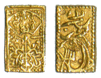 Keicho-1buban